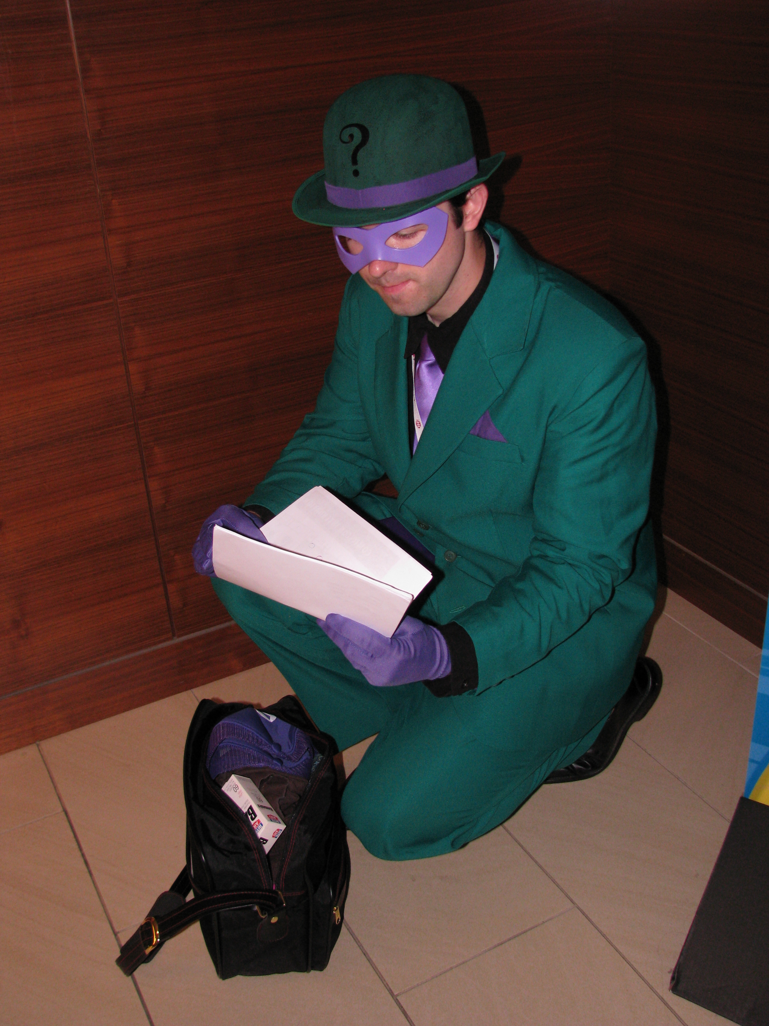 A cosplay of The Riddler trying to find answers.